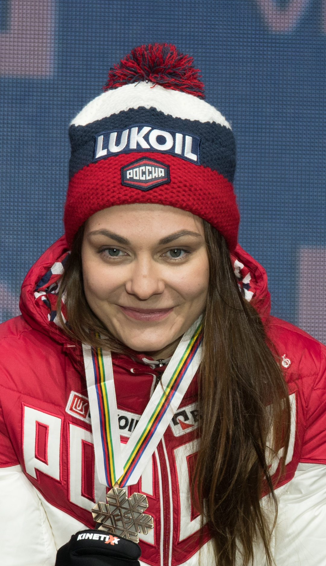 FIS Nordic Wolrd Ski Championships Seefeld 2019 - Medal Ceremony at the Medal Plaza. Picture shows Anastasia Sedova (RUS).